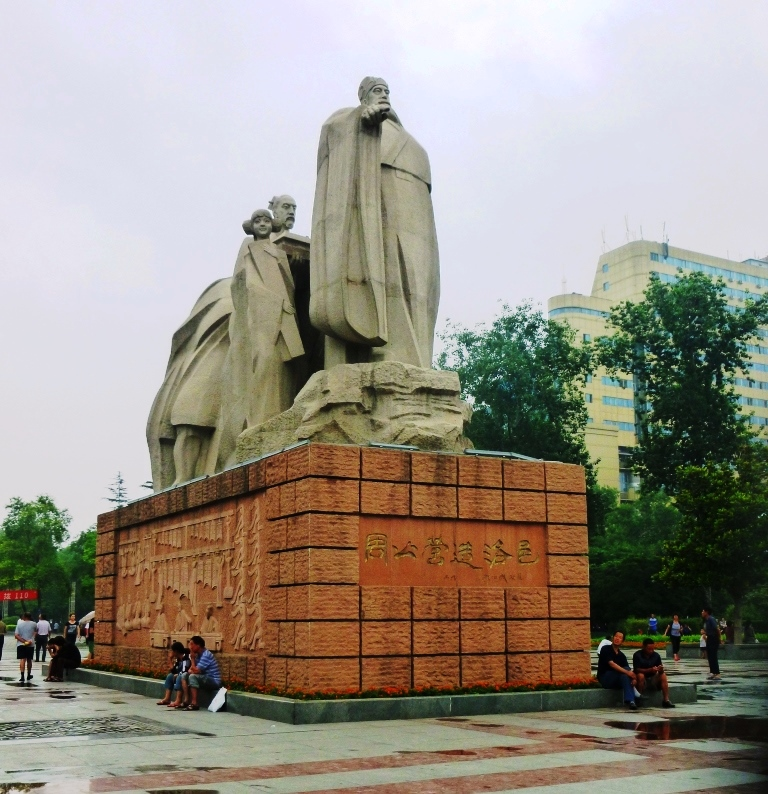 Photo of modern statue celebrating the Duke of Zhou, founder of the original city of Luoyang.